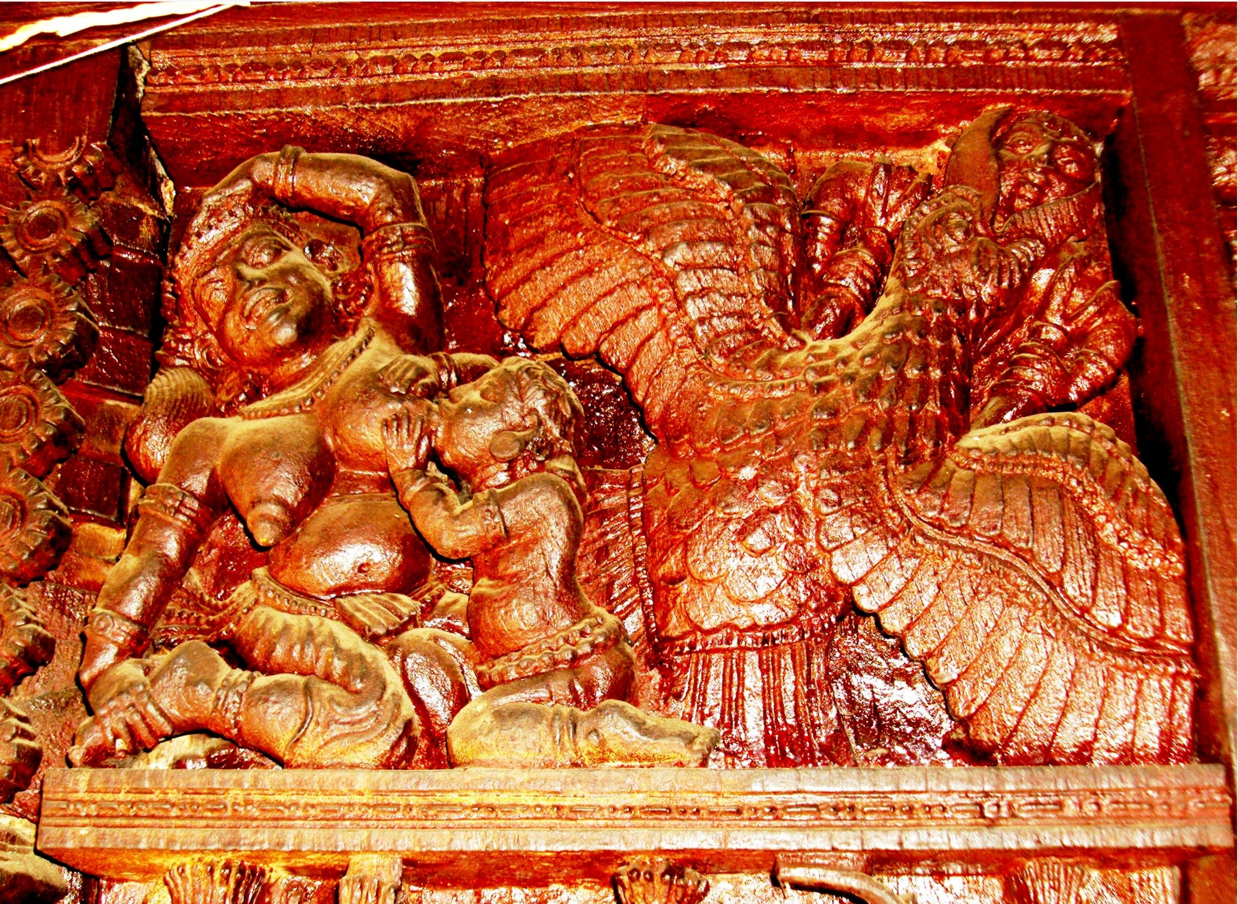 Killing, Putana, Saraba - Wooden carvings - Vazhappally Temple